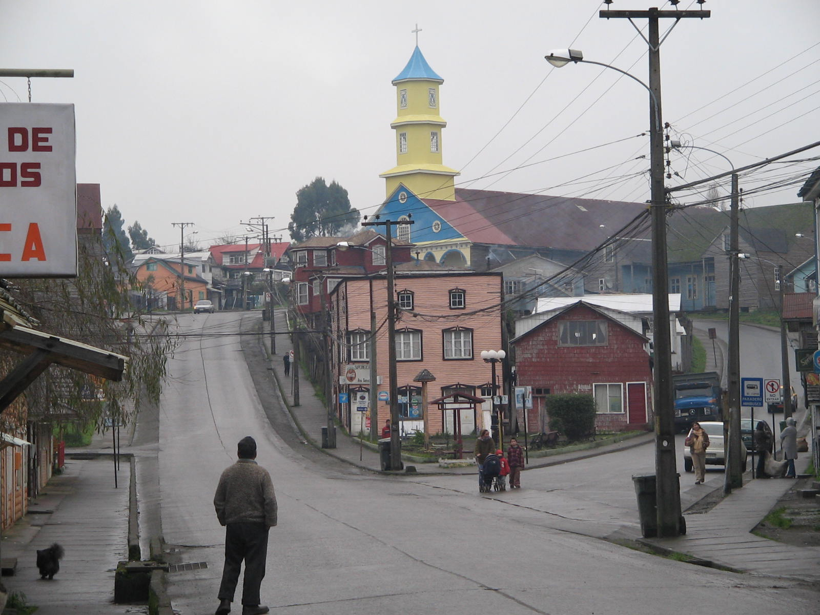 Iglesia de Chonchi vista desde la calle Centenario